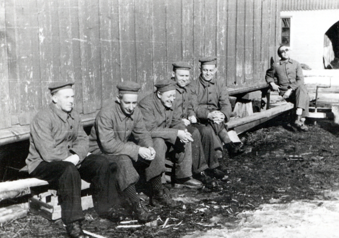 Fanger på Falstad Nedre 1942. Fra venstre: ukjent (Engseth?), Ralph Tambs Lyche, ukjent (Midsund?), Per Almås, Magnar Breida og Ketil Martens. Prisoners at Falstad Nedre 1942. From the left: unknown (Engseth?), Ralph Tambs Lyche, unknown (Midsund?), Per Almås, Magnar Breida og Ketil Martens. Dato / Date: 1942. Fotograf / Photographer: ukjent / unknown. Sted / Place: Ekne, Nord-Trøndelag, Norge / Norway. Arkivreferanse /Archive reference: FSM foto 0700173.